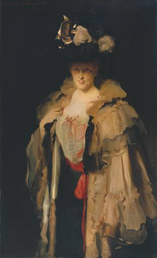 Mrs. Charles Hunter (nee Mary Smyth) John Singer Sargent -- American painter 1898 Tate Gallery, London Oil on canvas 148 x 89.5 cm (57 x 34 1/2 in.) Presented by Mrs Charles Hunter through the National Art Collections Fund `in memory of a great artist and a great friend' 1929 Jpg: Tate Gallery